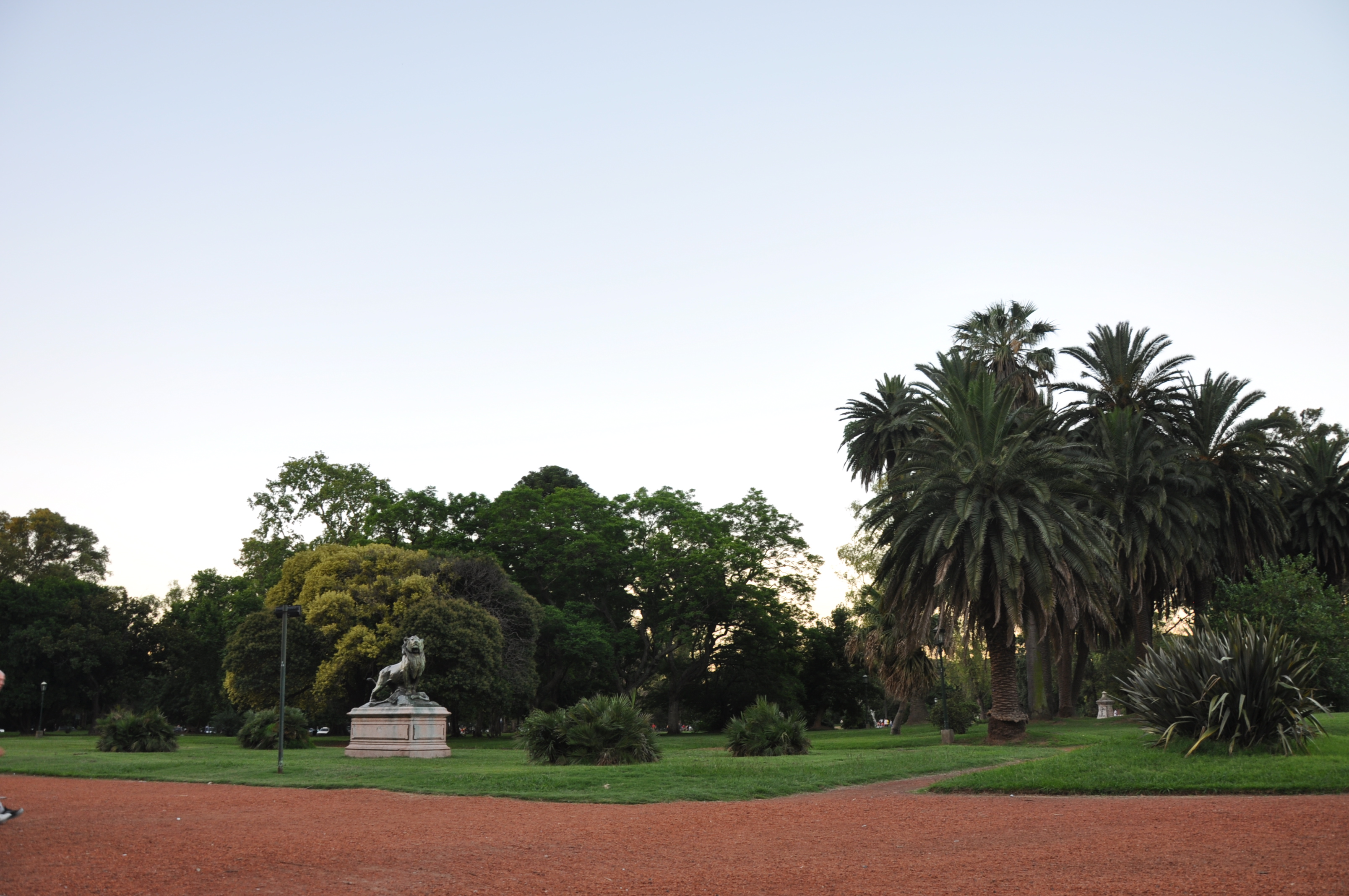 The Buenos Aires Botanical Garden (whose official name in Spanish is Jardín Botánico Carlos Thays de la Ciudad Autónoma de Buenos Aires) is located in the Palermo neighbourhood of Buenos Aires in Argentina. The garden is triangular in shape, and is bounded by Sante Fé Avenue, Las Heras Avenue and República Árabe Siria Street. Palermo Park, the Buenos Aires Zoo and the Japanese Garden are all nearby. The garden, which was declared a national monument in 1996, has a total area of 69,772 m2, and holds around 5,500 species of plants, trees and shrubs, as well as a number of sculptures, monuments and 5 winter-houses. Designed by French-born Argentine architect and landscape designer Carlos Thays, the garden was inaugurated on September 7, 1898. Thays and his family lived in an English style mansion, located within the gardens, between 1892 and 1898, when he served as director of parks and walks in the city. The mansion, built in 1881, is currently the main building of the complex